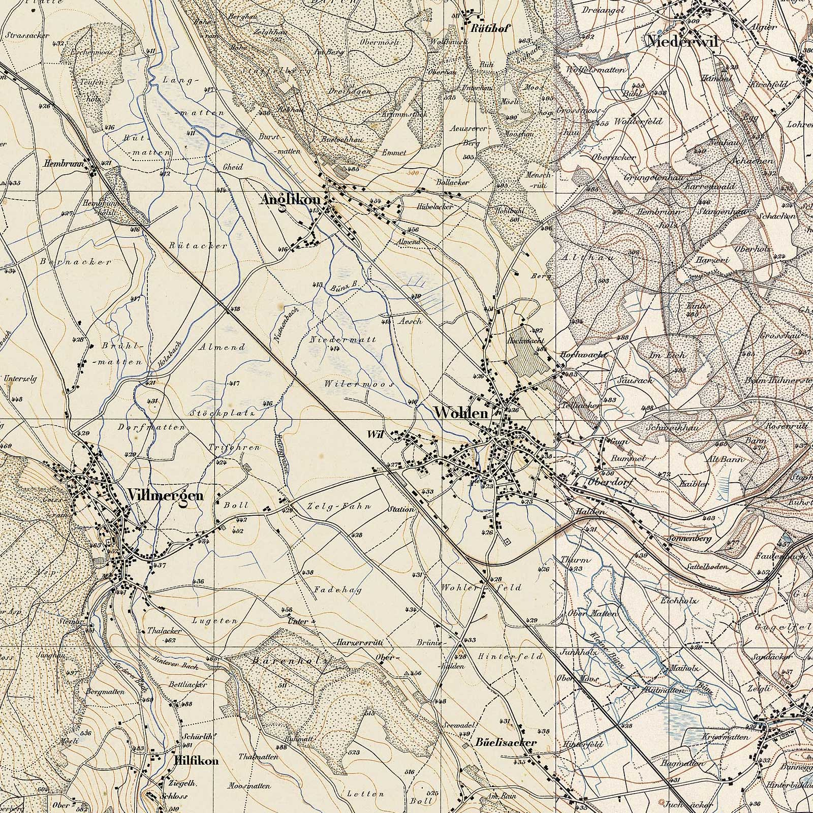 Wohlen and surrounding area on the Siegfried map of 1881, scale 1:25,000